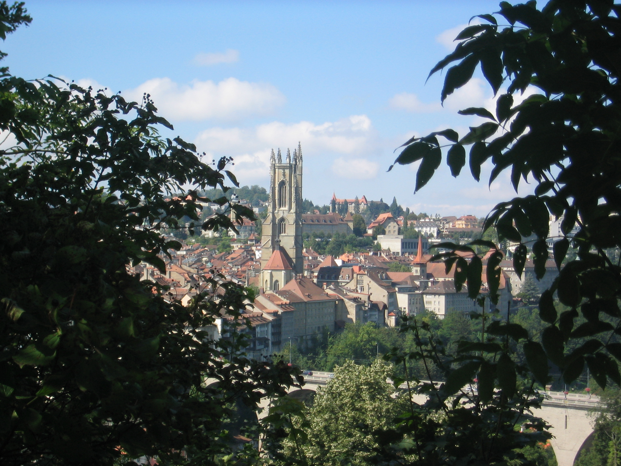 Fribourg